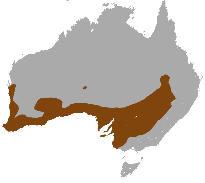 Western Gray Kangaroo (Macropus fuliginosus) range